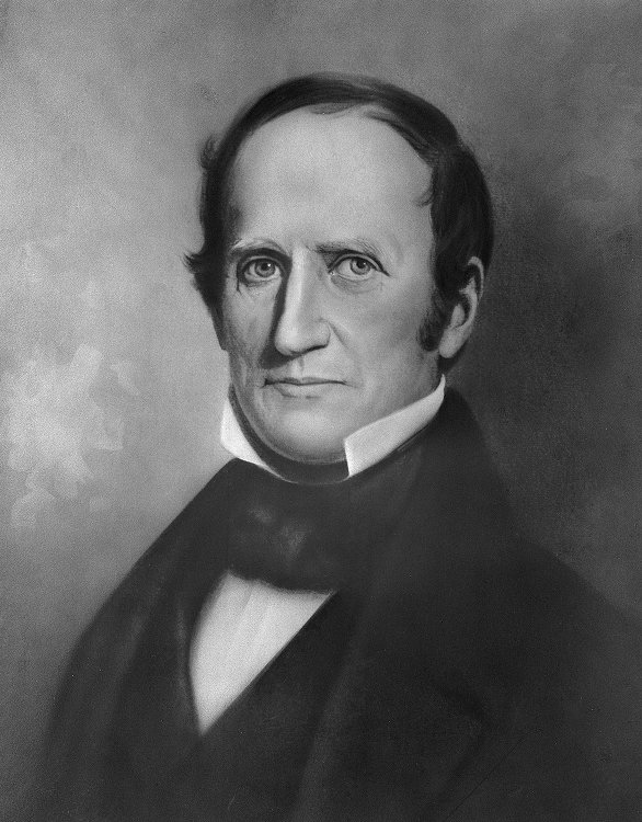 Portrait of former Mayor of Pittsburgh Matthew B. Lowrie